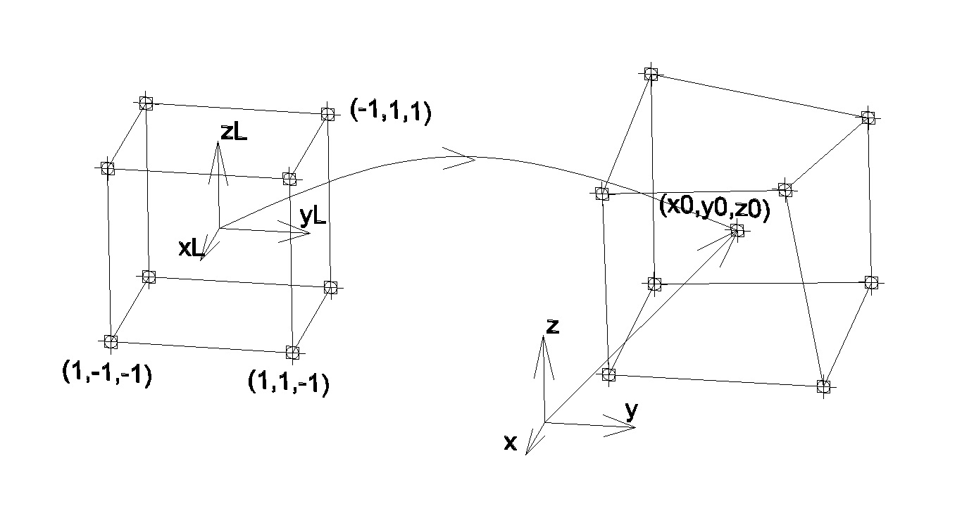 Reference cube in local coordinates, and map to a distorted element